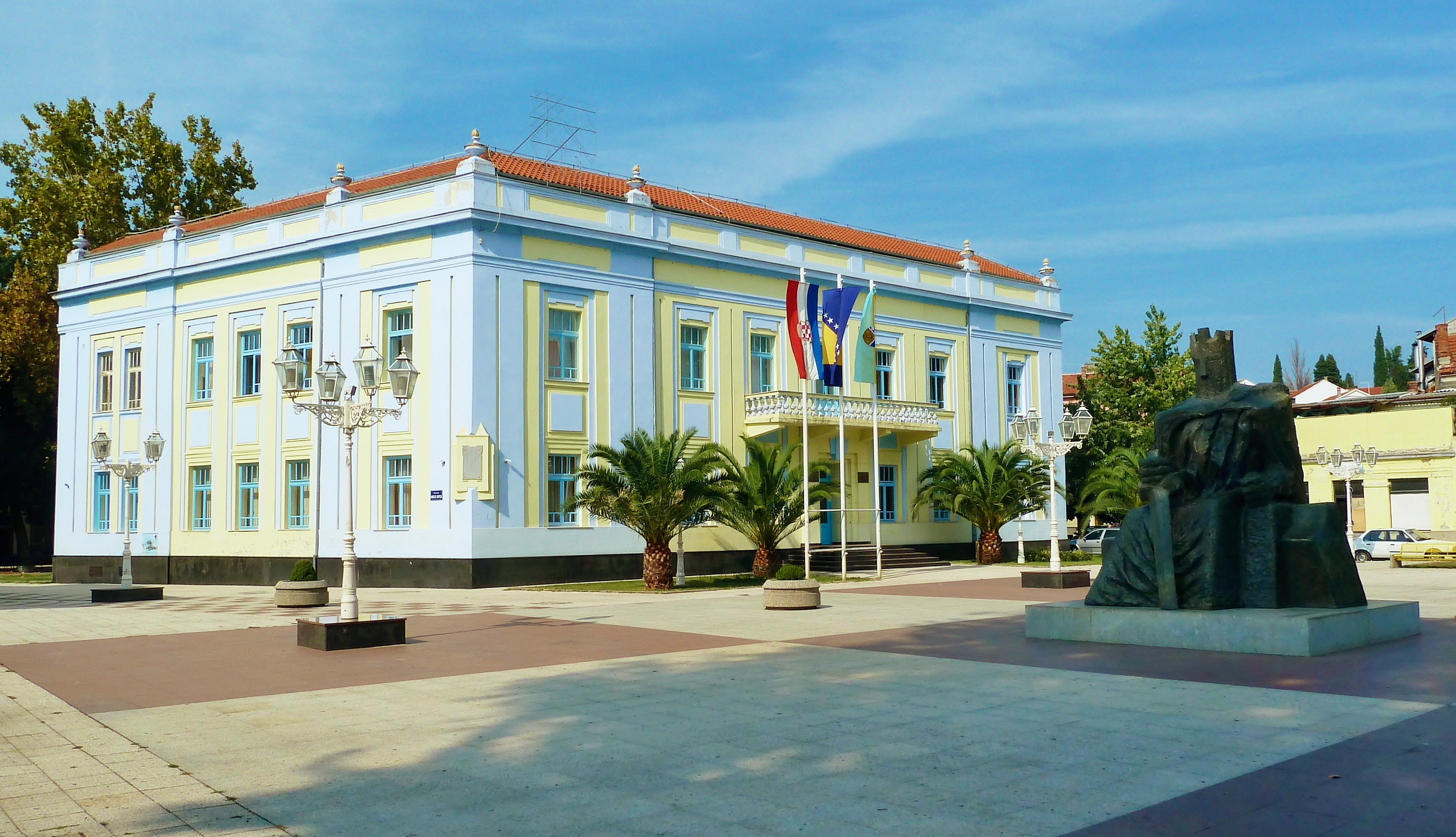 King Tomislav square and City hall in Čapljina